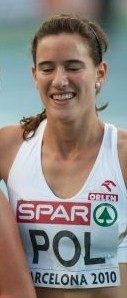 Poland 4 x 100 m relay at the 2010 European Athletics Championships in Barcelona (Marika Popowicz, Daria Korczyńska, Marta Jeschke, Weronika Wedler